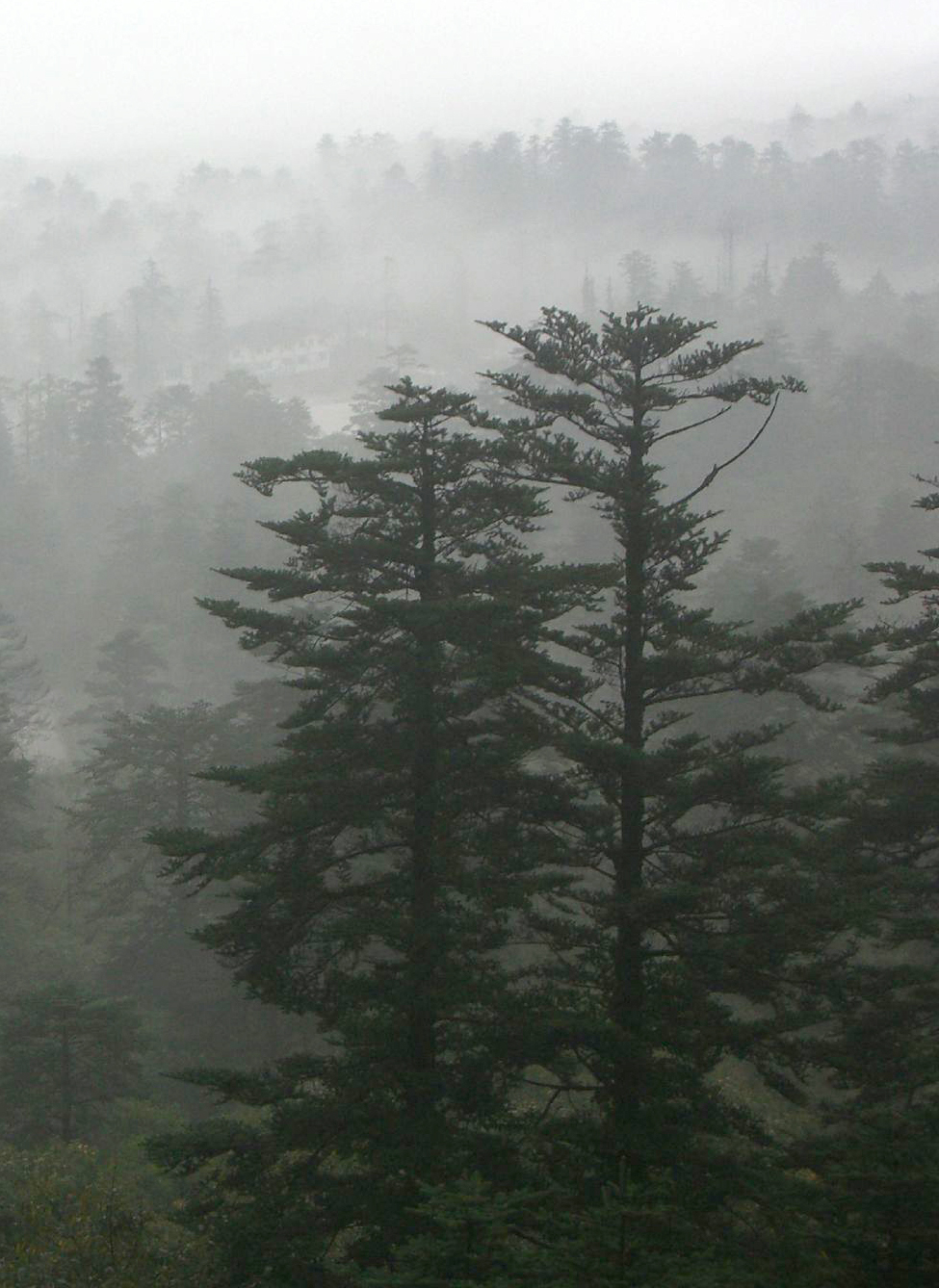 Abies fabri, near Jieyindian Temple, Emei Shan, Sichuan, China